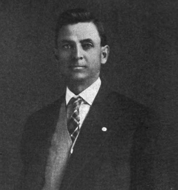 Charles E. Dagenett Other information No.